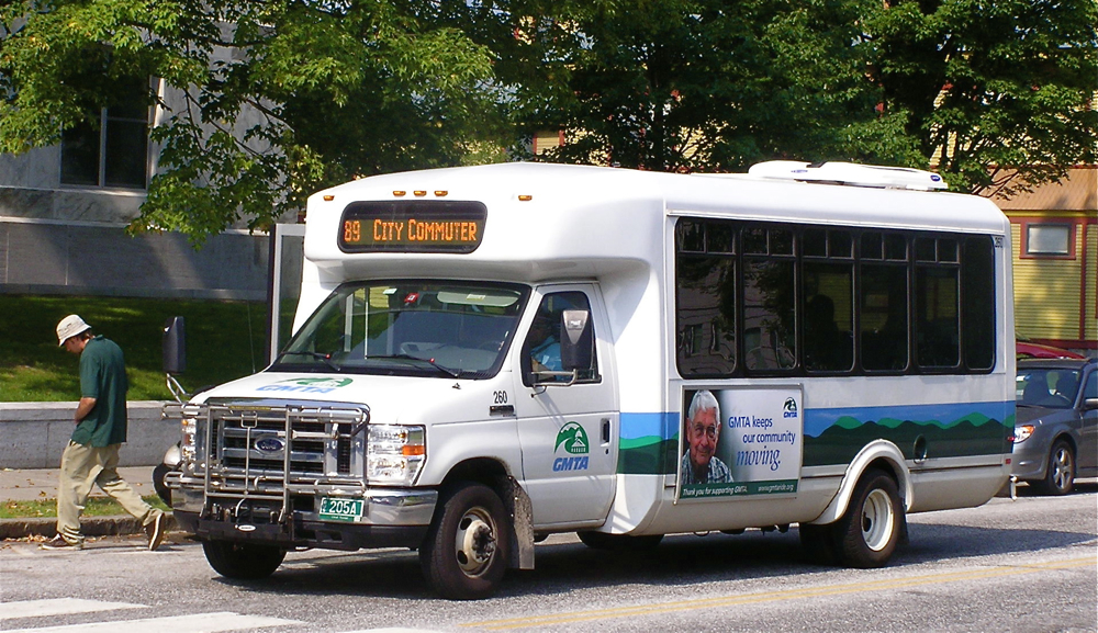 GMTA bus, Montpelier, Vermont, July 2010